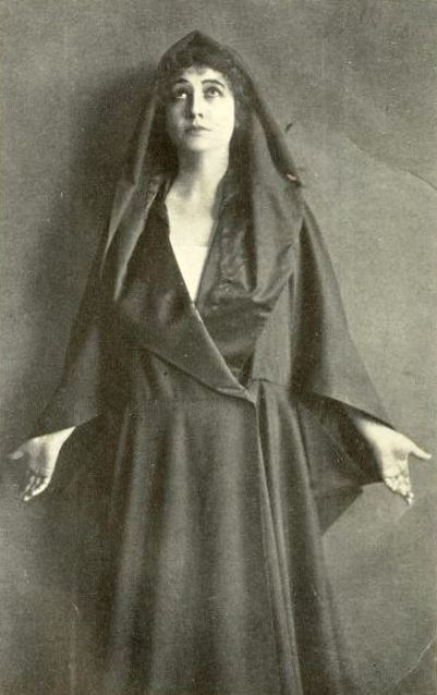 Actress Julia Arthur in the play The Eternal Magdalene, from the front of The Eternal Magdalene: A Modern Play in Three Acts by Robert McLaughlin, 1918 ed. Arthur was in a production of the play from Nov. 01, 1915 - Jan. 1916.